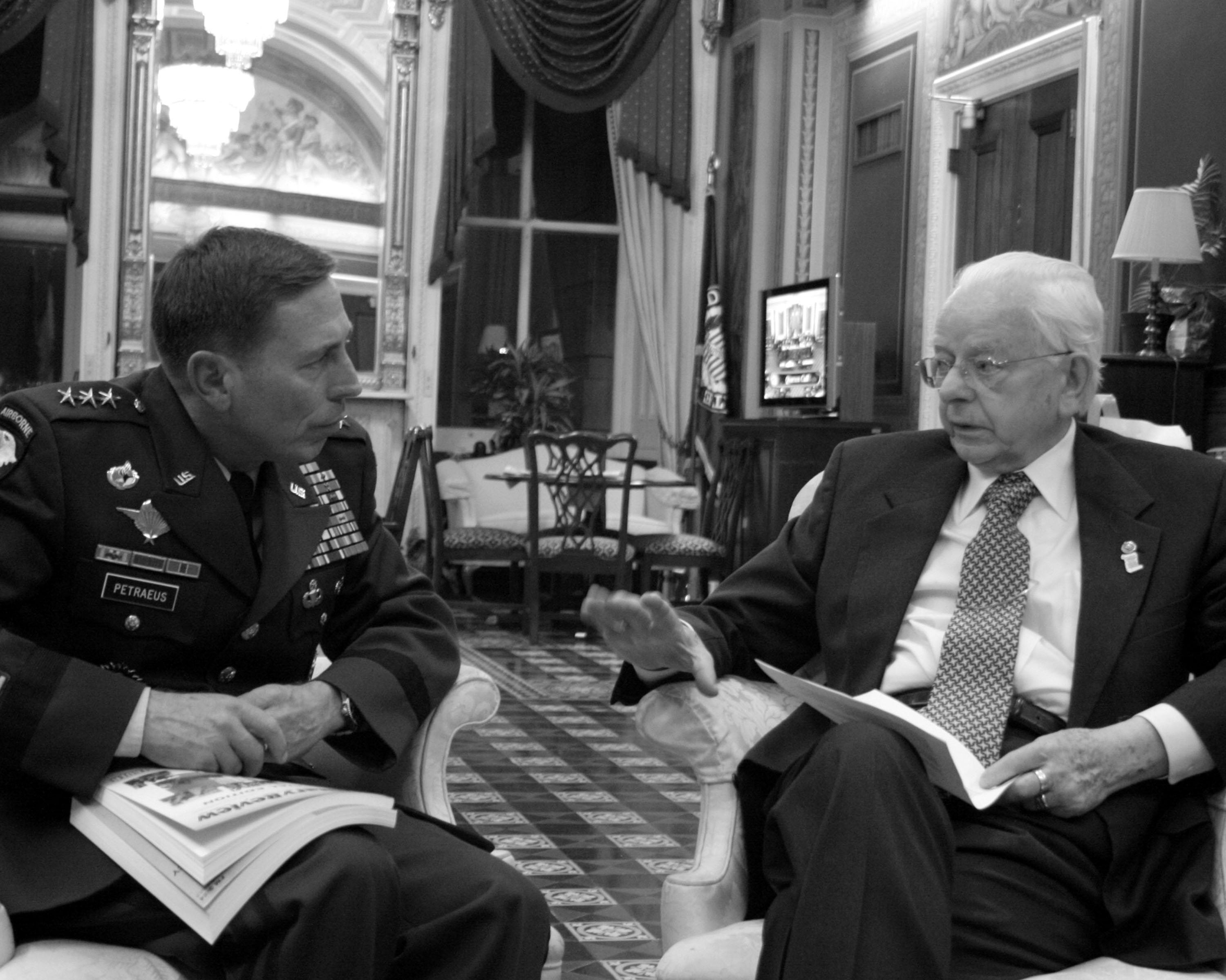 U.S. Senator Robert Byrd (D-WV) with General David Petraeus